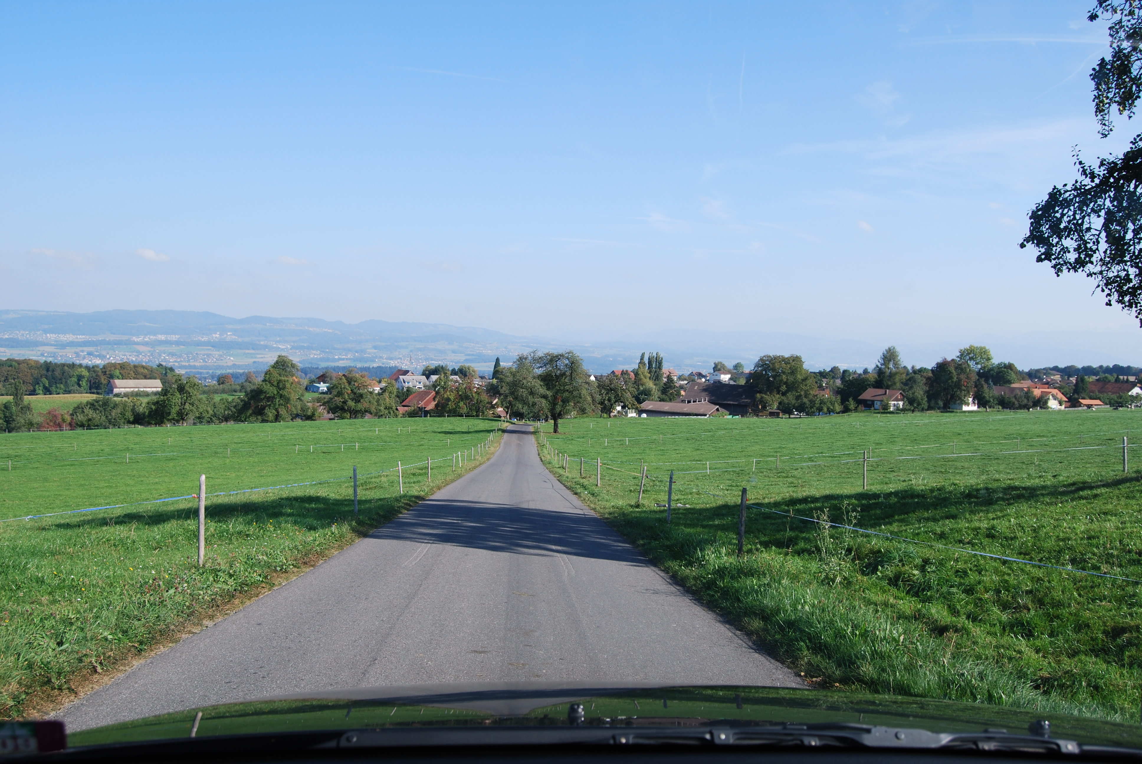 Buttwil, canton of Aargau, SwitzerlandEsperanto: Buttwil, Kantono Argovio, Svislando